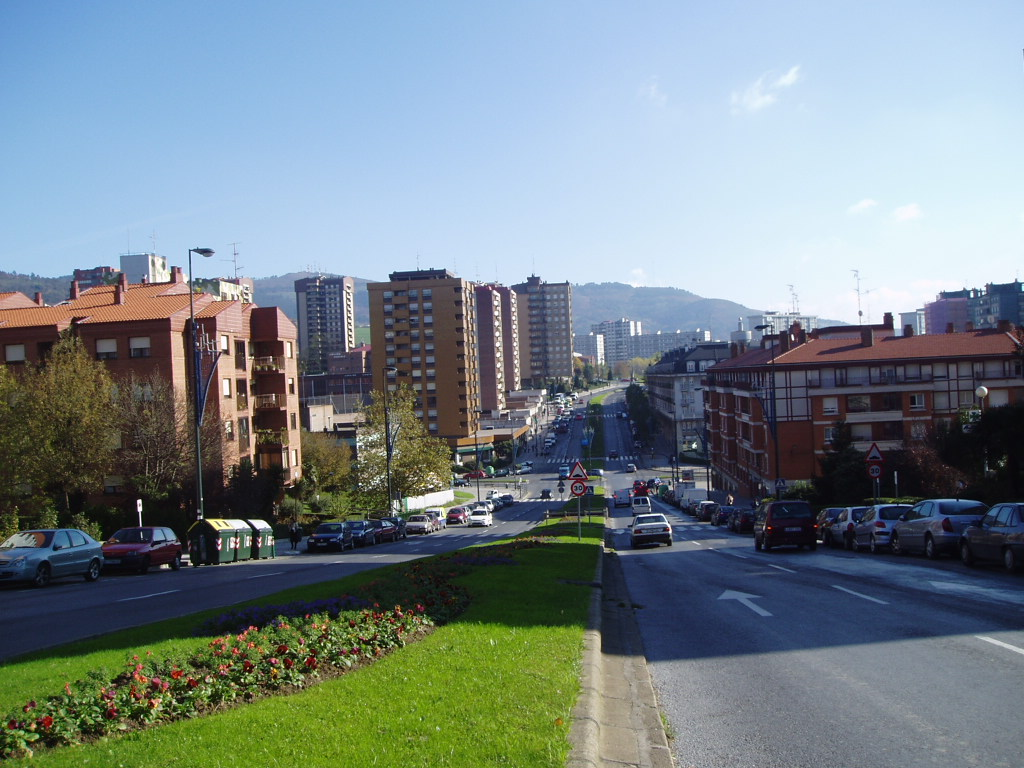 Txomin Garat (Dominique-Joseph Garat) avenue in Txurdinaga (Bilbao).